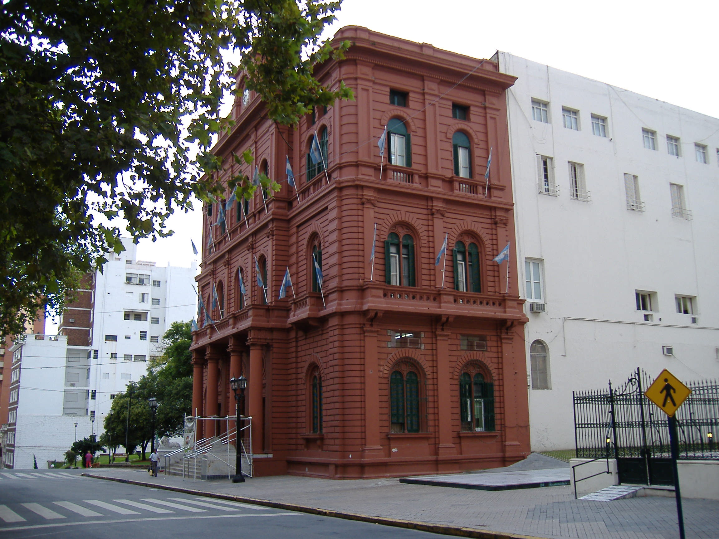 The Palacio de los Leones ("Palace of the Lions"), seat of the municipal executive branch in Rosario, Argentina (on Buenos Aires St. near Santa Fe St.). I, Pablo D. Flores, took this picture on 28 February 2006.